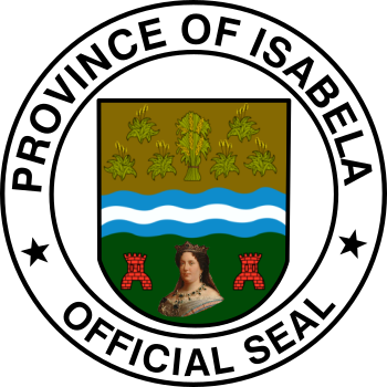 Provincial seal of Isabela, Philippines.